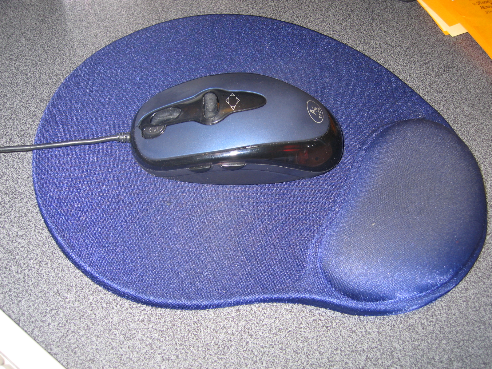 A4Tech OP-005D two-scroller-mouse on a matching-colour ergonomic mouse mat